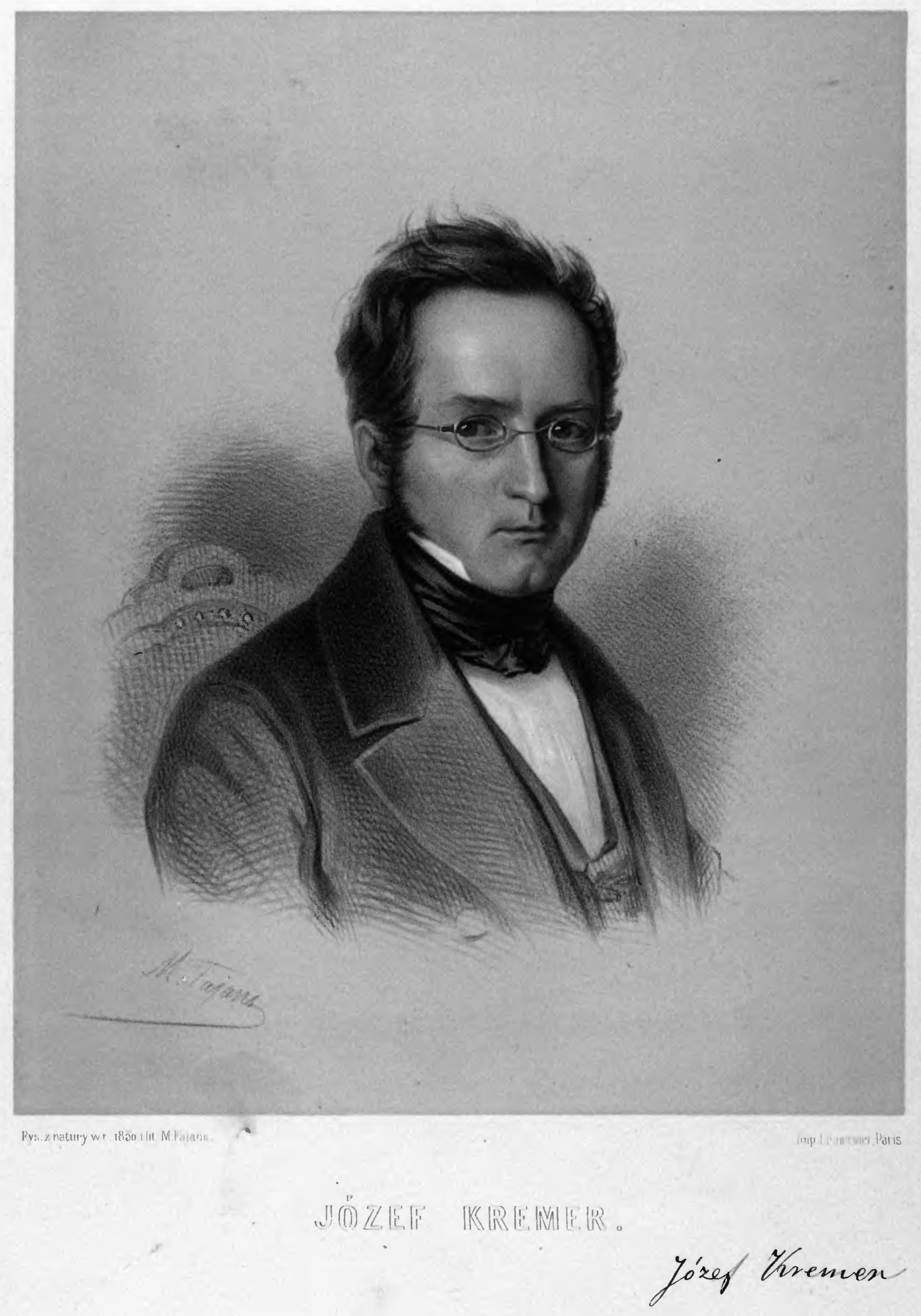 Portrait of Józef Kremer by Maksymilian Fajans. Made with the lithography technique in 1850. Image found via Europeana and downloaded and converted from DjVu from Kujawsko-Pomorska Biblioteka Cyfrowa ( This is a cropped version of